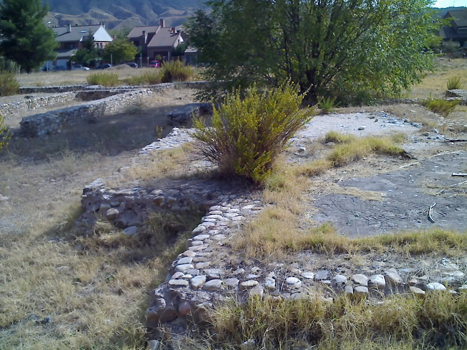 Ancient Roman archaeological site of the Villa Romana del Val in Alcalá de Henares (Community of Madrid - Spain).